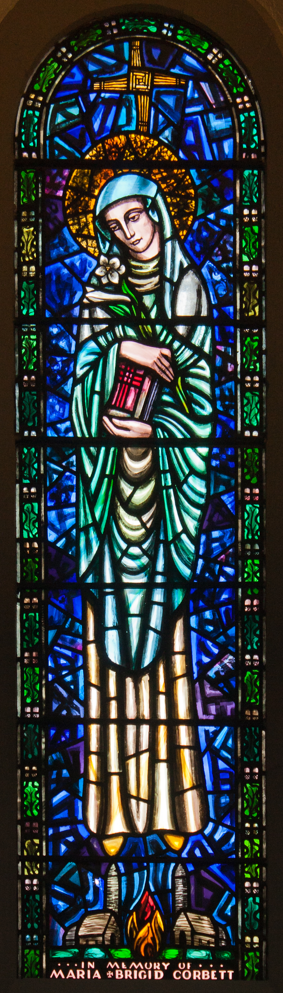 Right stained glass window in the fifth bay of the east aisle, depicting Saint Brigid. Probably by Patrick Pollen.